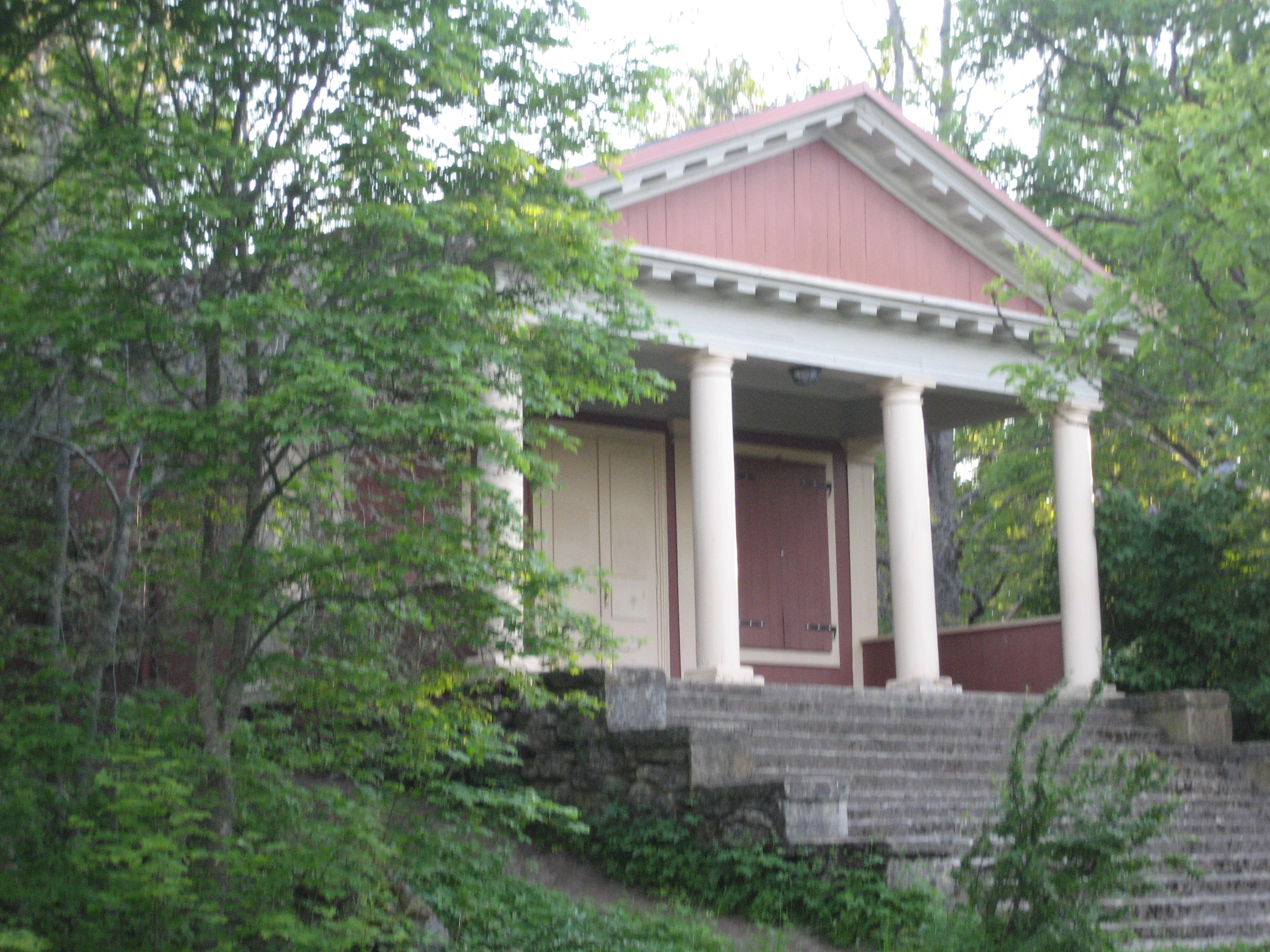 The Temple of Sommarro, Adolfsberg, Sweden